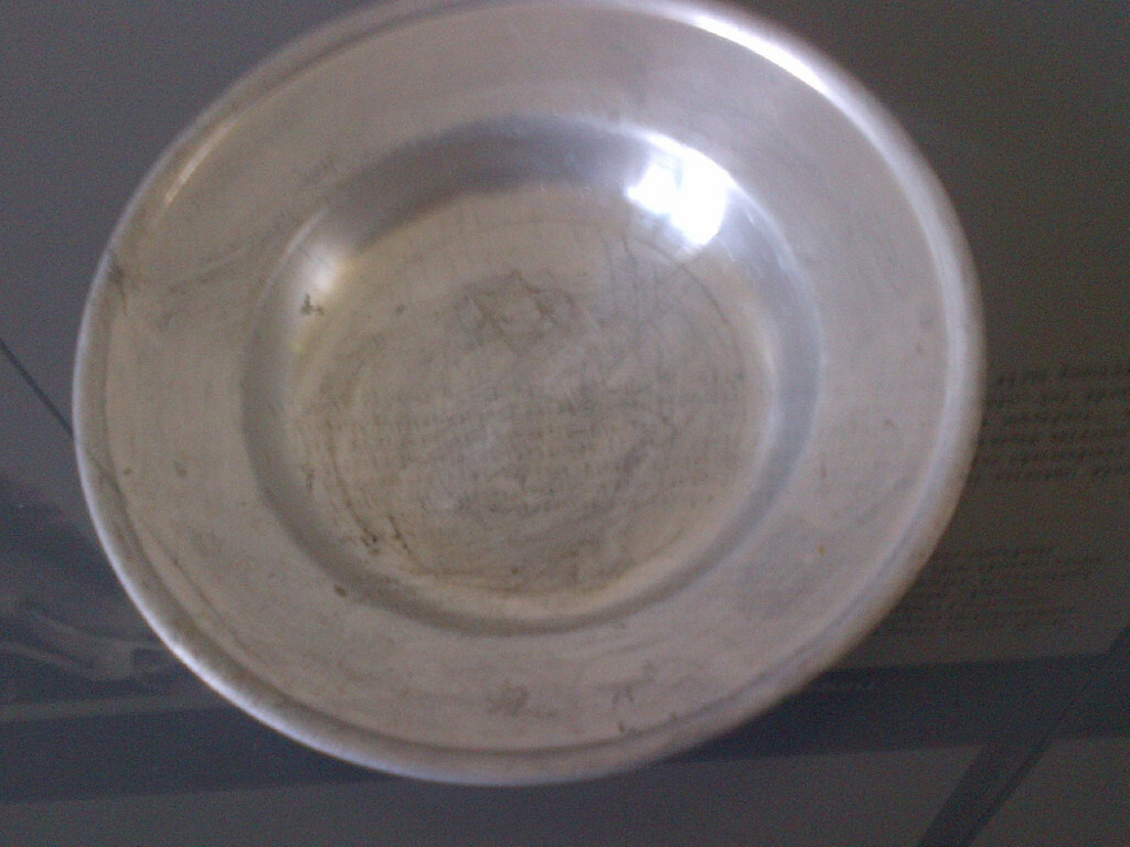 A Dachau prisoner's eating bowl with a Magen David sign.